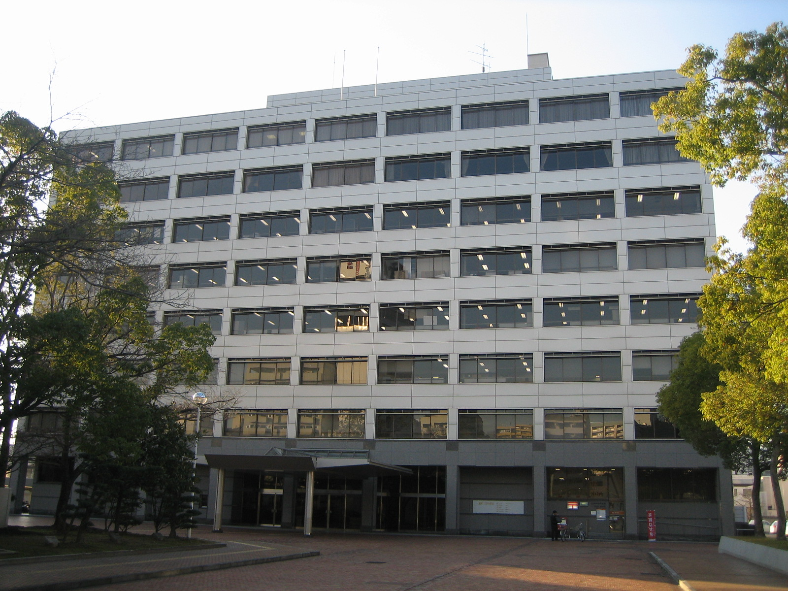 JP group Hiroshima building